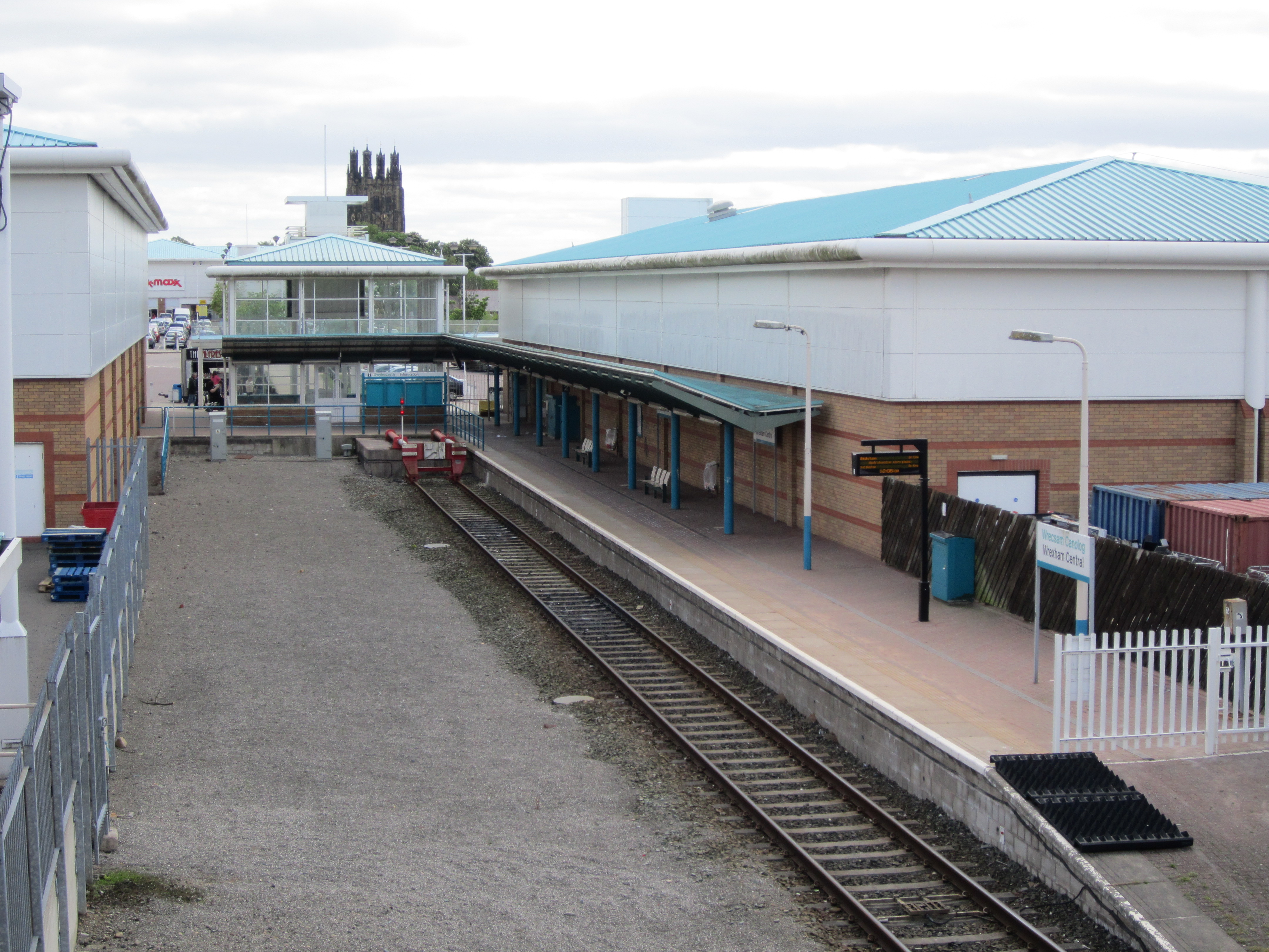 Wrexham Central station, Wales. View from the Bradley Road bridge.